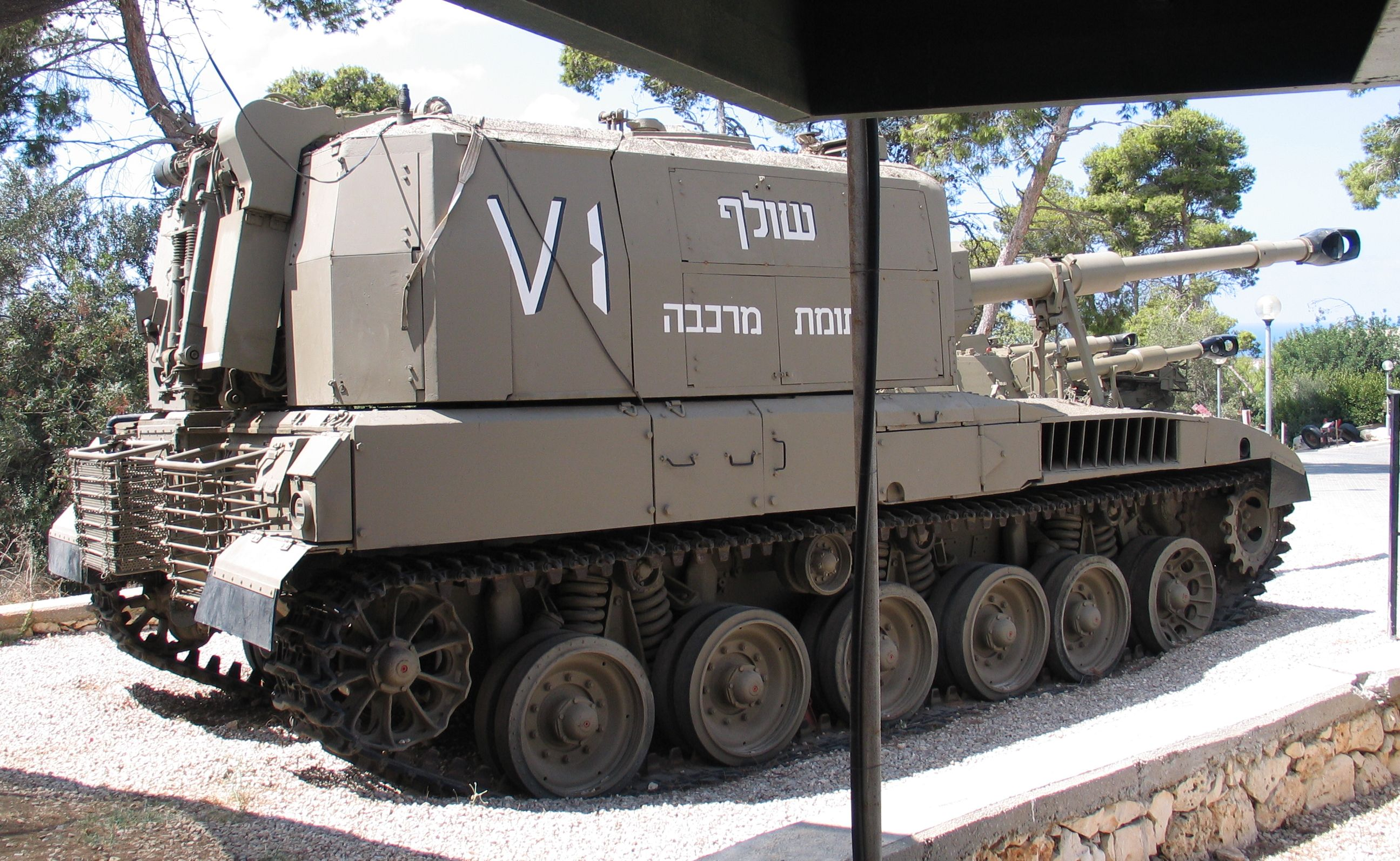 Israeli Sholef 155 mm self-propelled howitzer in Beyt ha-Totchan, Zichron Yaakov, Israel.